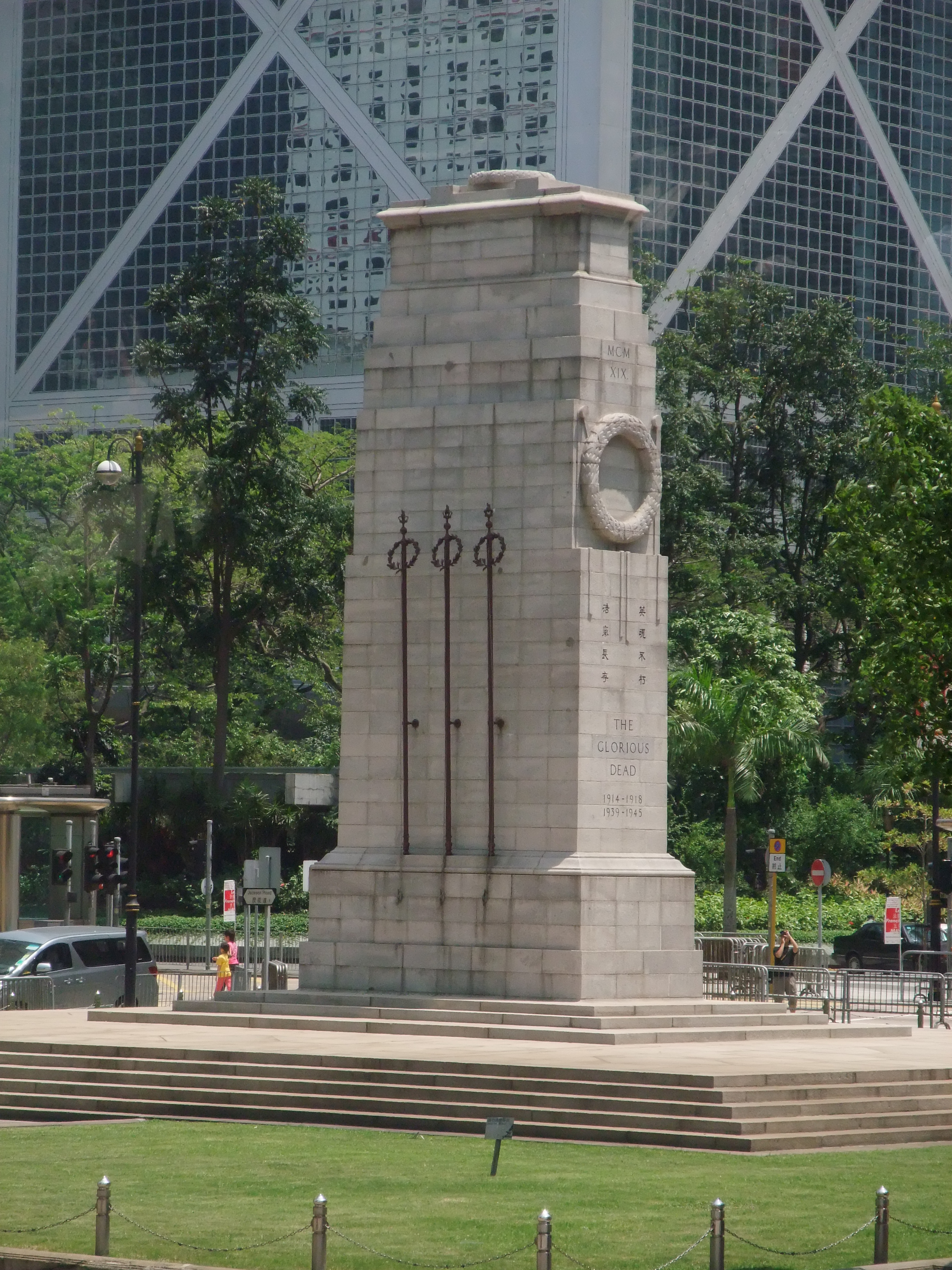 Photo of Cenotaph